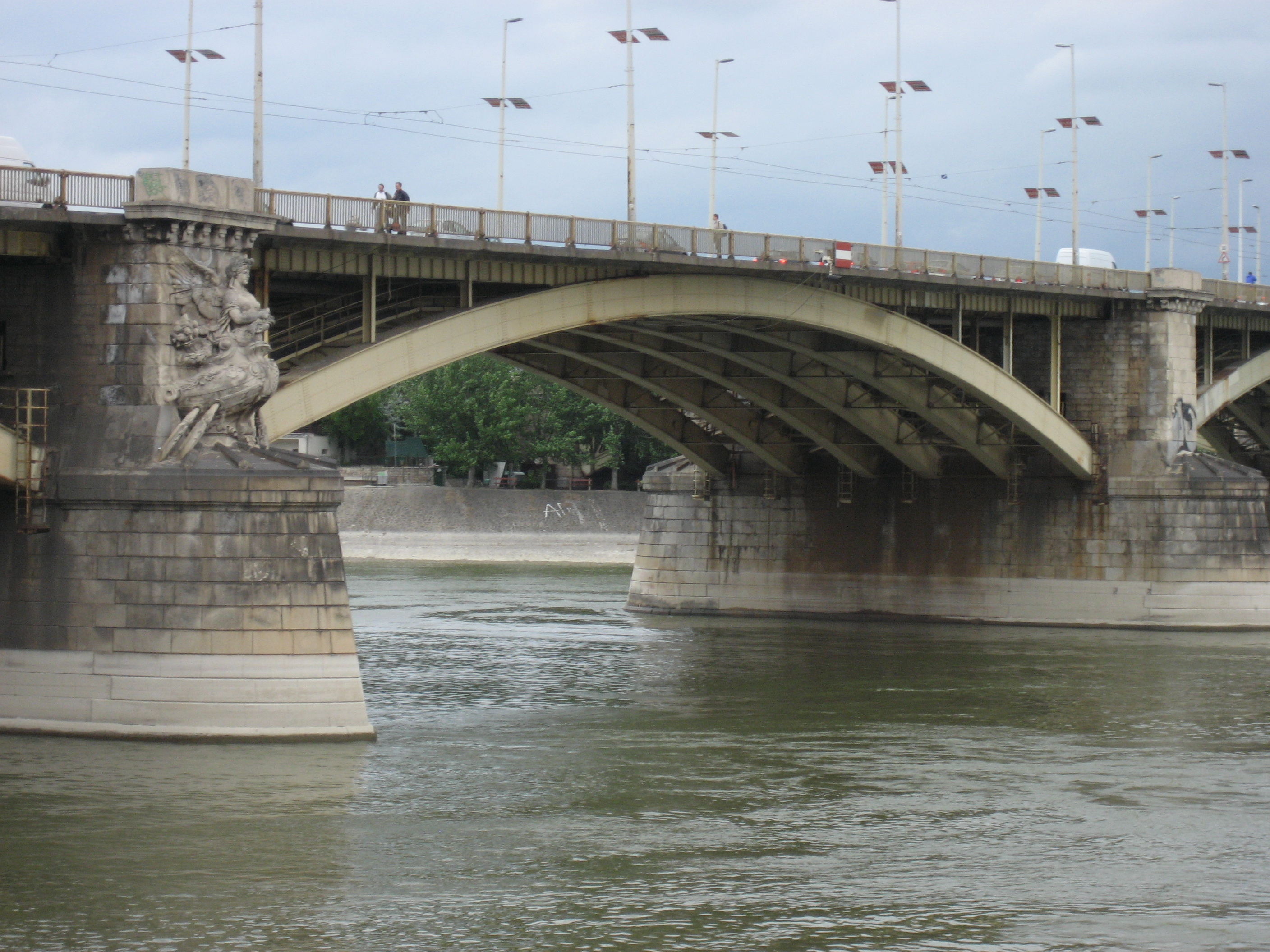 Margit híd (Margret bridge) in Budapest, Hungary